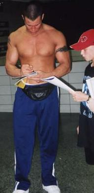 Randy Orton in 2002